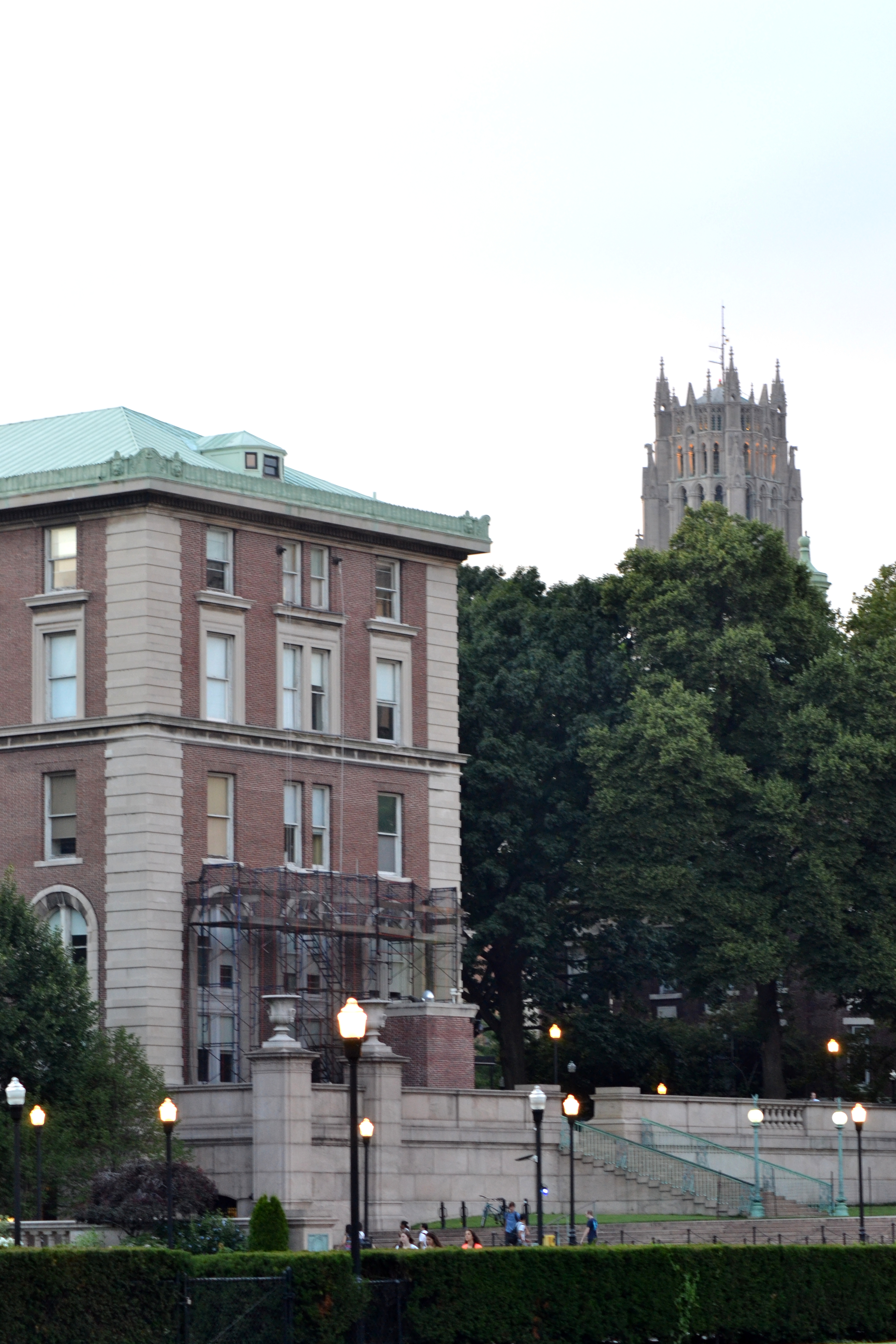 Columbia University in NYC